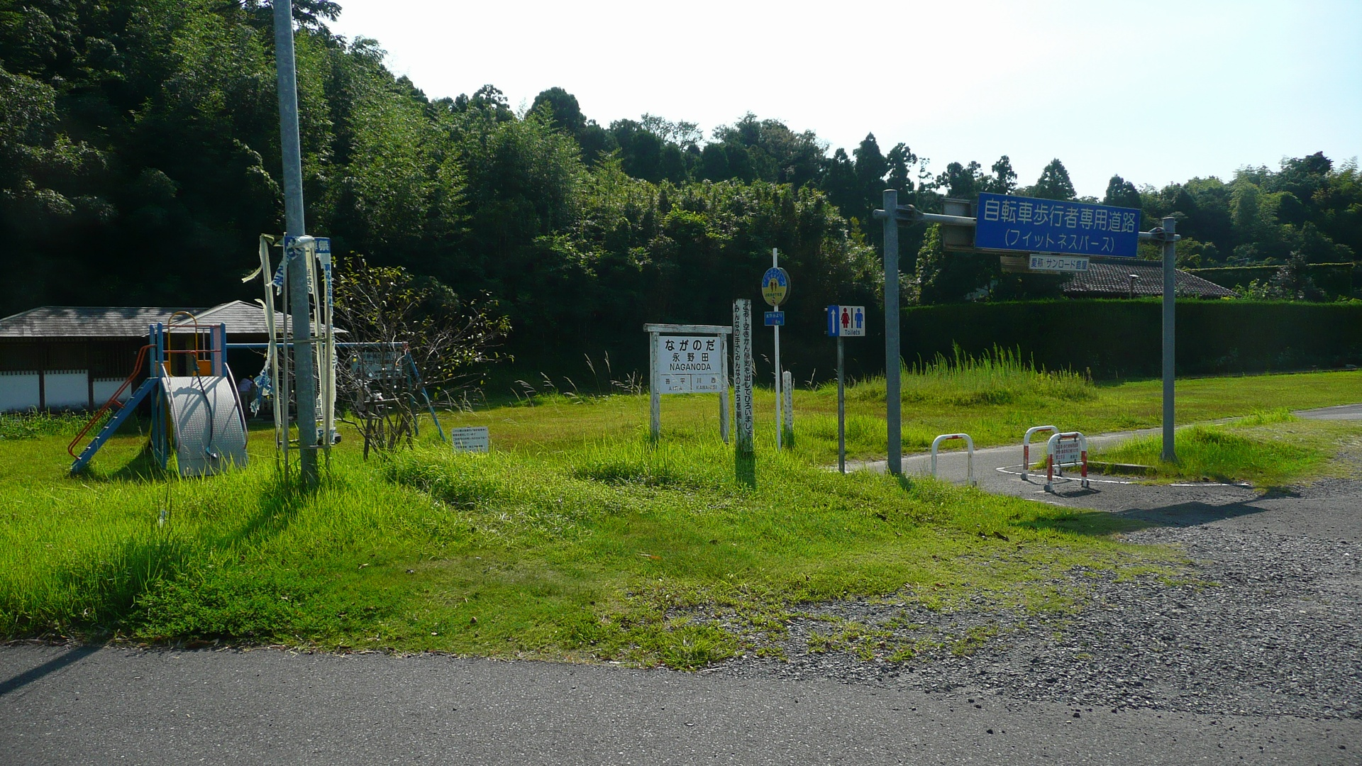 Former Naganoda Station (JNR Osumi Line, 1920-1987) This station was located in Kanoya City, Kagoshima, Japan.